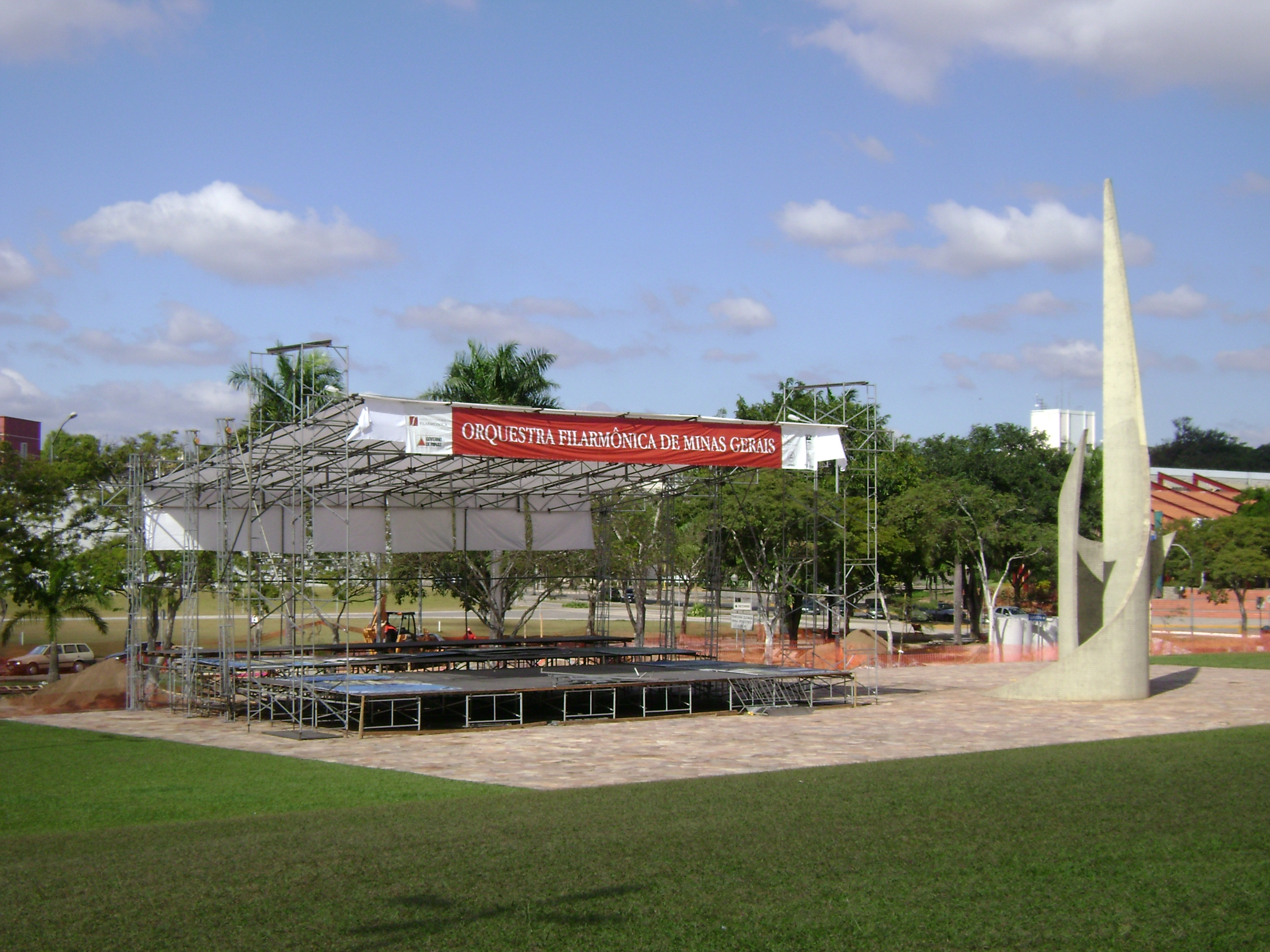 Orchestra in front of the rectory of Universidade Federal de Minas Gerais.